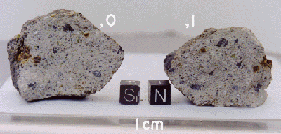 QUE94200, a howardite about 5 cm across, found in the Queen Alexandra Range in Antarctica. Image from Astromaterials curation at NASA JSC